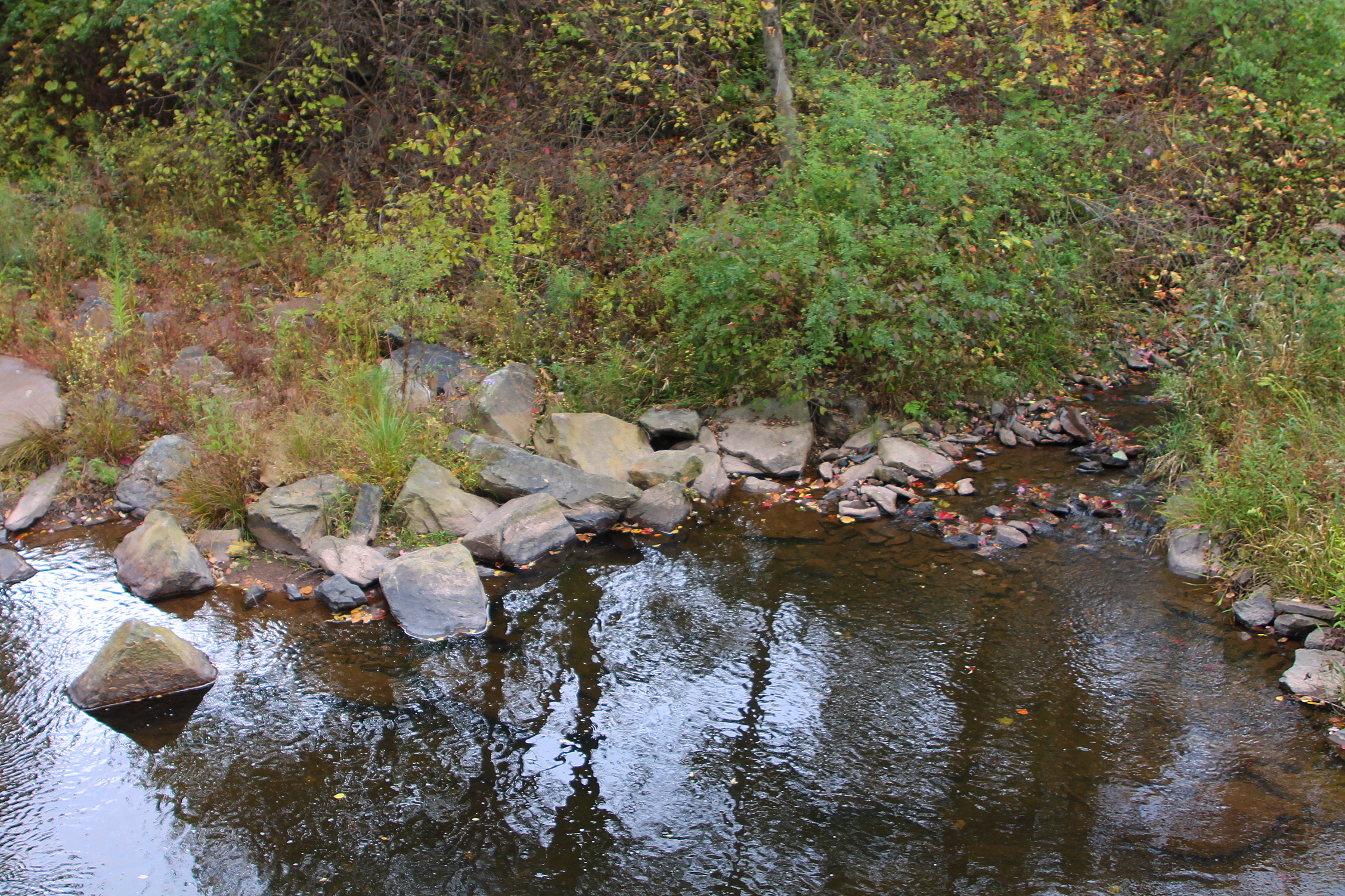 Stony Run (right) reaches its confluence with Little Catawissa Creek in Union Township, Schuylkill County, Pennsylvania